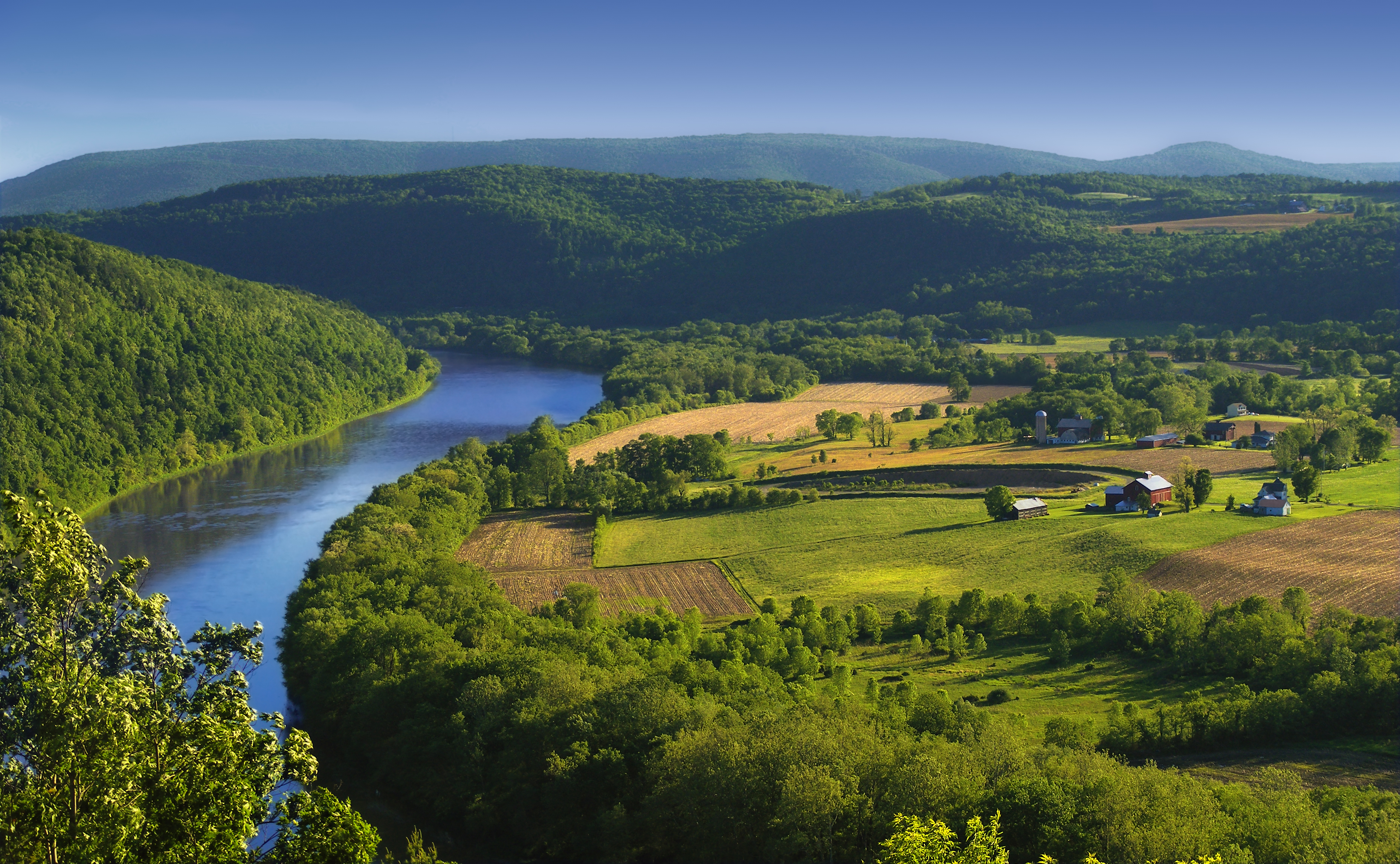 The Susquehanna River, Asylum Township, Bradford County, as seen from the Marie Antoinette Lookout off of US Route 6 near Wyalusing in Pennsylvania. Visible from here is the French Azilum Historic Site, where some Revolution-fleeing French aristocrats settled in 1793. It was said that Marie Antoinette planned to settle in a house across the river from the lookout which was allegedly built for her. The marker reads: A settlement of French royalists, who fled the French Revolution in 1793, was established in the valley directly opposite this marker. It was laid out and settled under the direction of Viscount de Noailles and Marquis Antoine Omer Talon. It was hoped that Queen Marie Antoinette might here find safety. Marie Antoinette Lookout, Route 6, Wyalusing, PA.